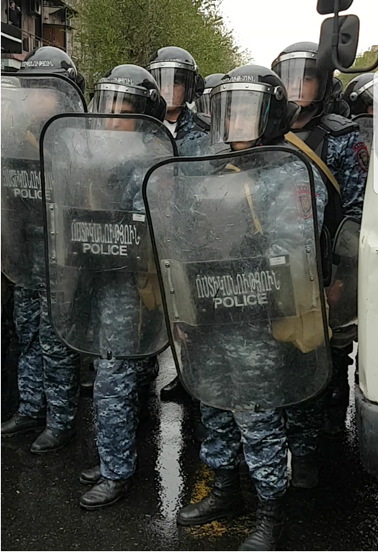 Armenian Police forces in Komitas avenue, 2018, 20 April